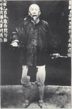 Feng Zicai